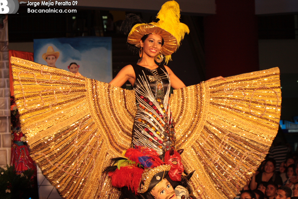 Arlen wearing the Miss Nicaragua's National Costume